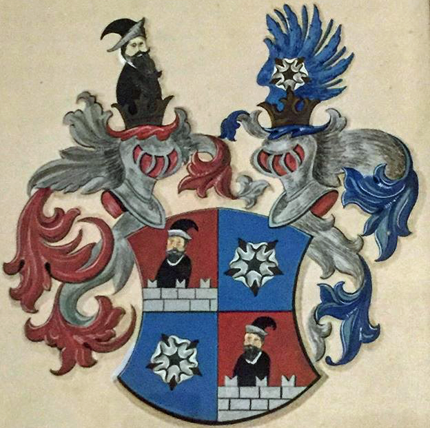 Later Indermaur family coat of arms